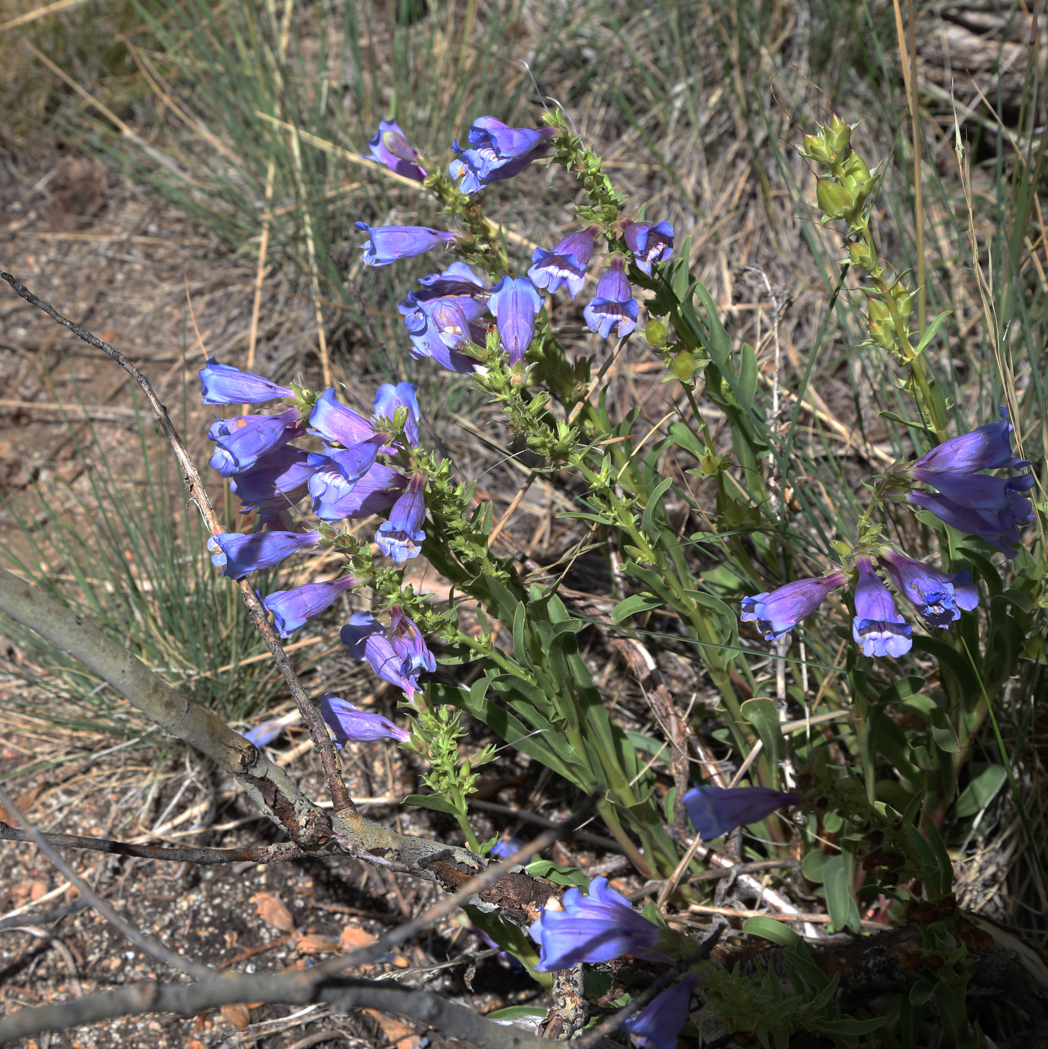 Showy penstemon (Penstemon speciosus), flowering plant. Along trail east of North Lake, Inyo National Forest, Sierra Nevada USA.